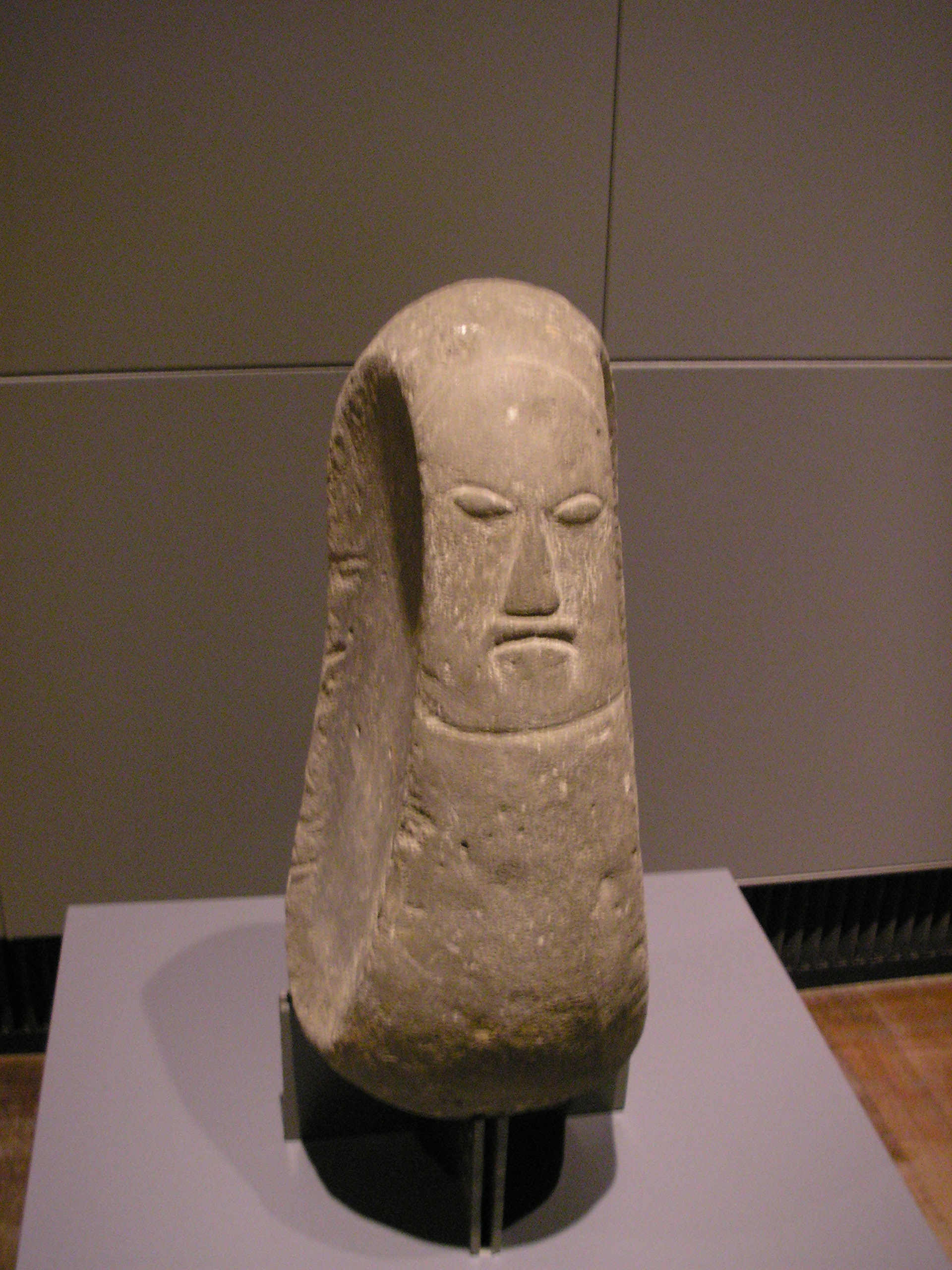 Figure, probably the God of canoe carvers. From Hawaii, Collection Arning, 1887. Located in the Ethnologisches Museum, Berlin-Dahlem.